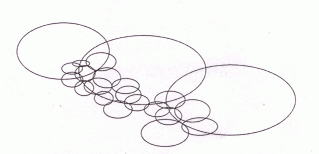 Cell Structure